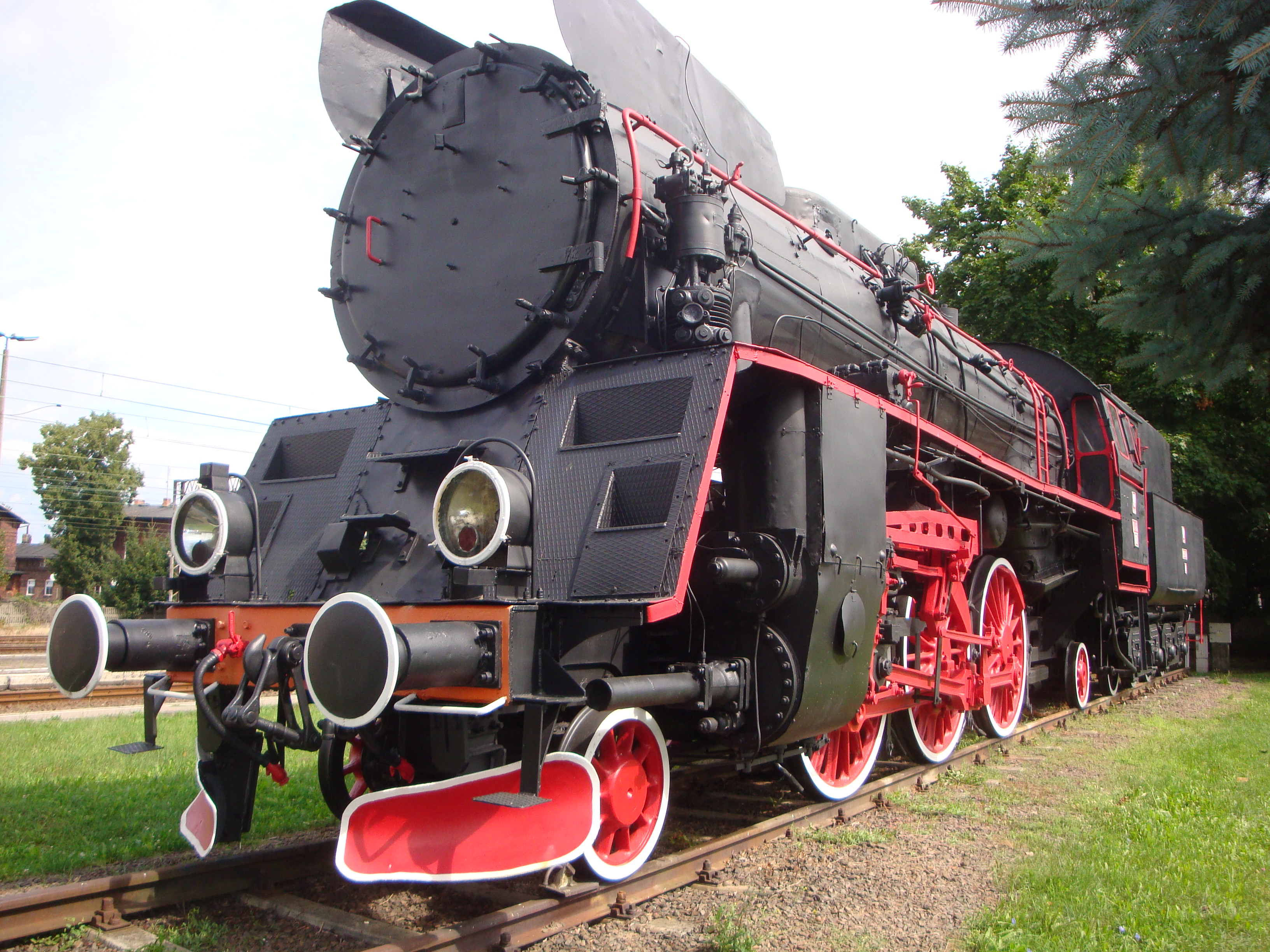 Parowóz Ol49-82 w Krzyżu. This photo was taken during Railway Wikiexpedition 2013 set up by Wikimedia Polska Association. You can see all photographs in category Wikiekspedycja kolejowa 2013. English | Polski | +/−